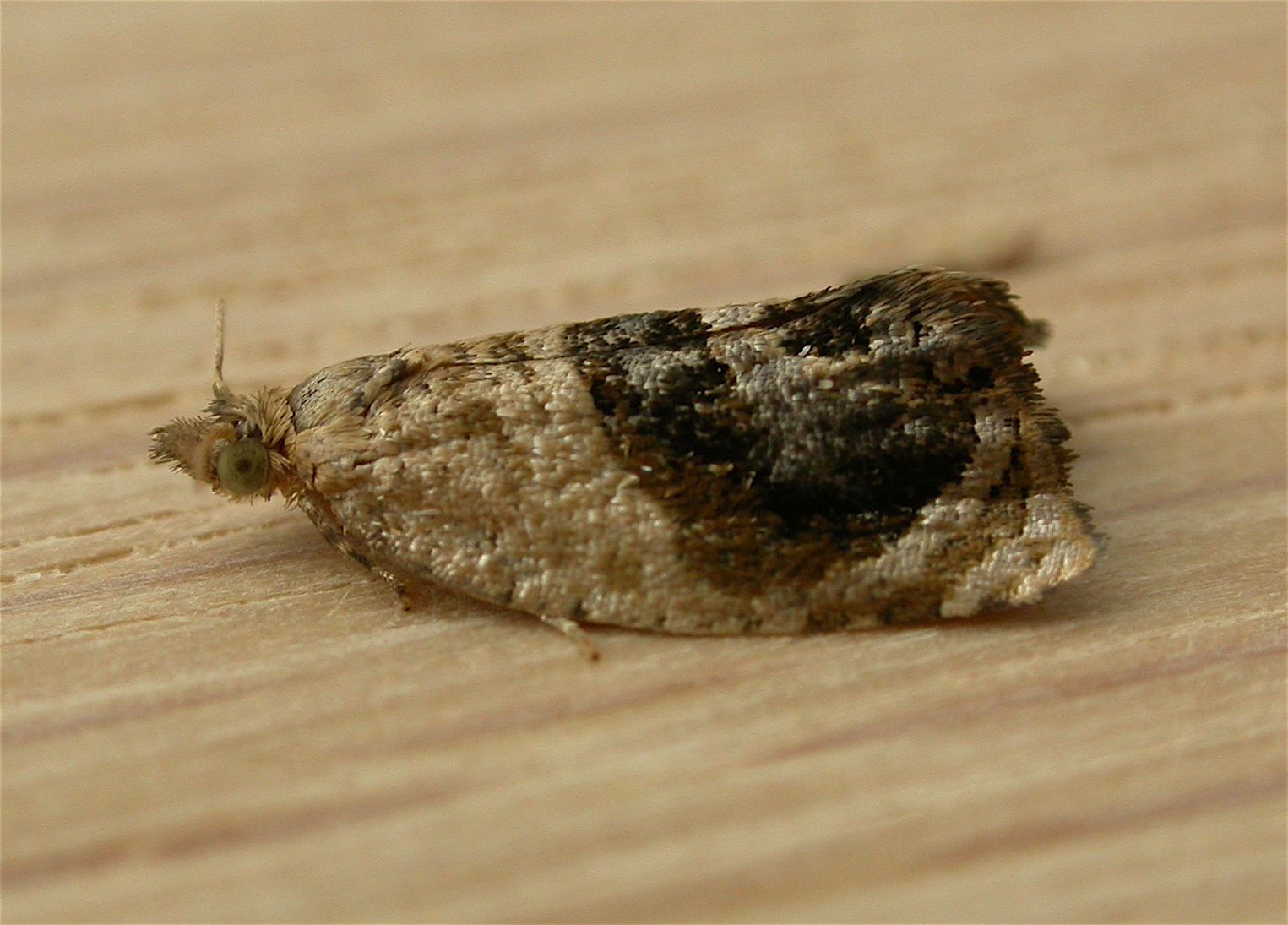 A female Acroceuthes metaxanthana in Australia.